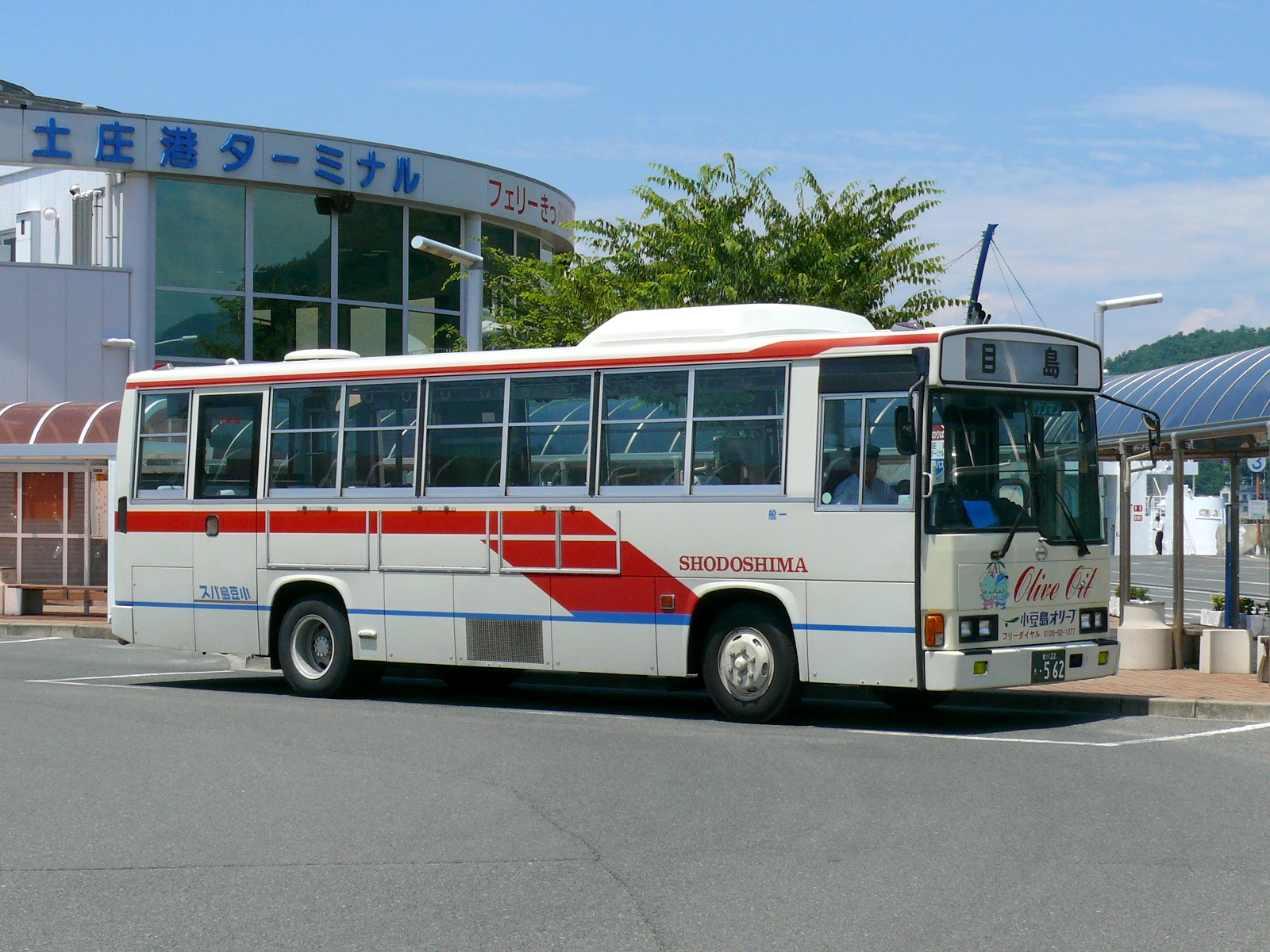 Shodo sima Bus Type HINO Rainbow RJ (Shodoshima island Kagawa Prefecture, Japan).